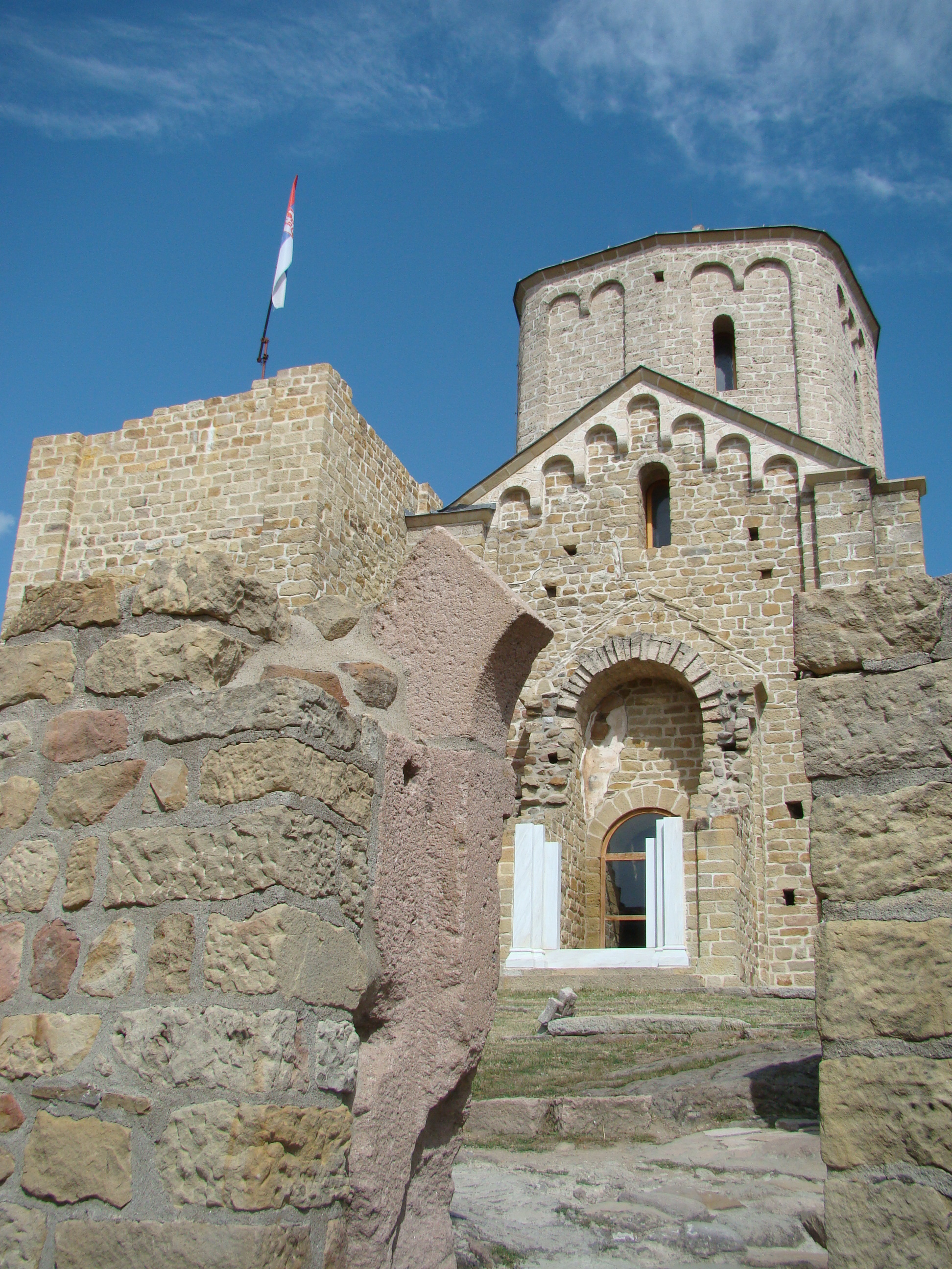 Ðurdevi Stupovi u Rasu, 19. septembar 2010.